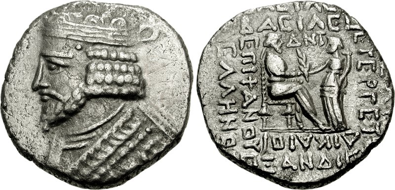 Coin of Vardanes I.